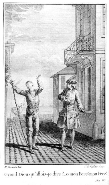 Illustration for "L'Honnête Criminel" by French playwright Charles-Georges Fenouillot de Falbaire de Quingey (1727-1800)